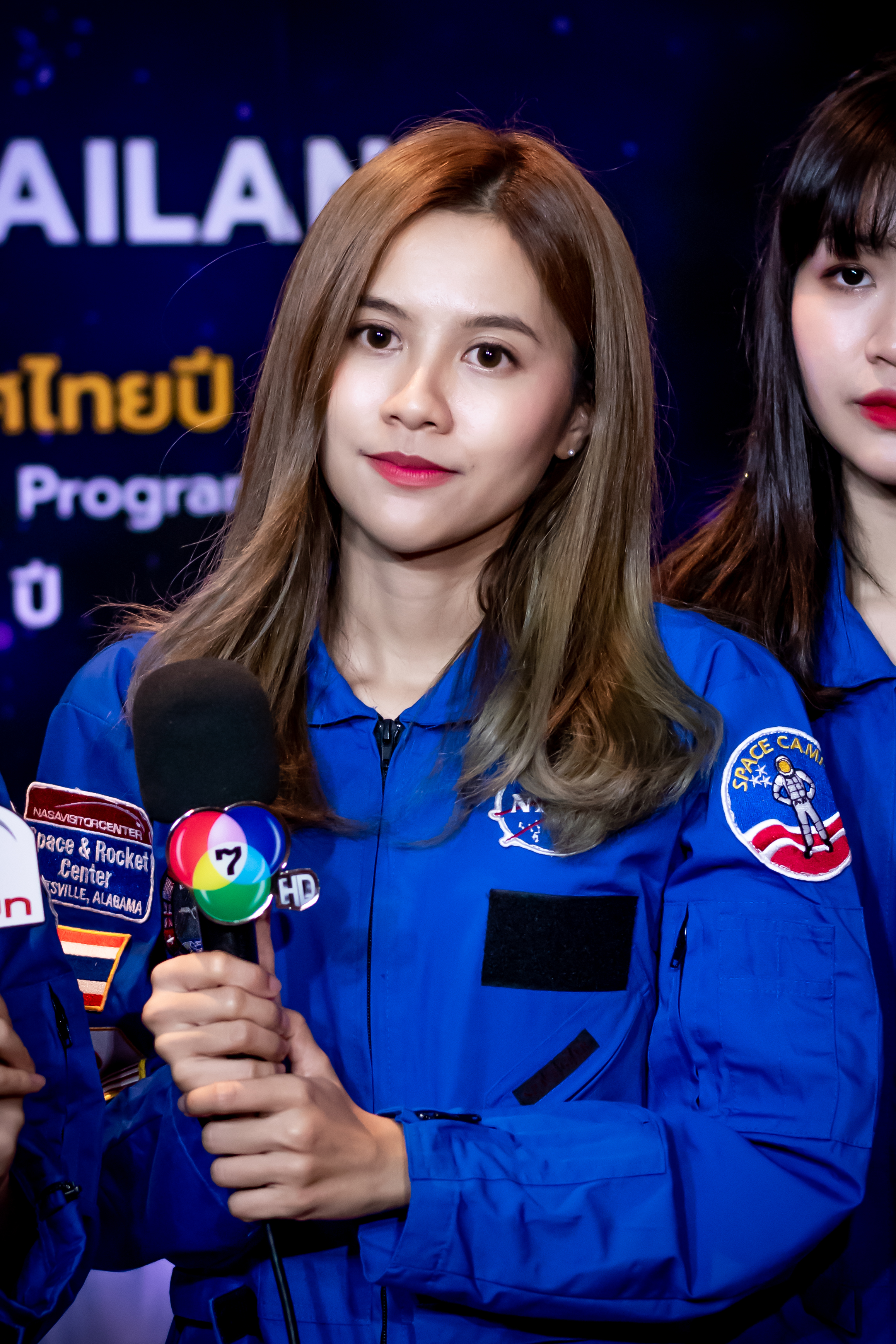 Milin Dokthian (Namneung) while giving interviews to the press after the press conference of Space Camp Thailand event at IMPACT Muang Thong Thani. She is one of the four members that are going to attend Space Camp organized by NASA in 2020.